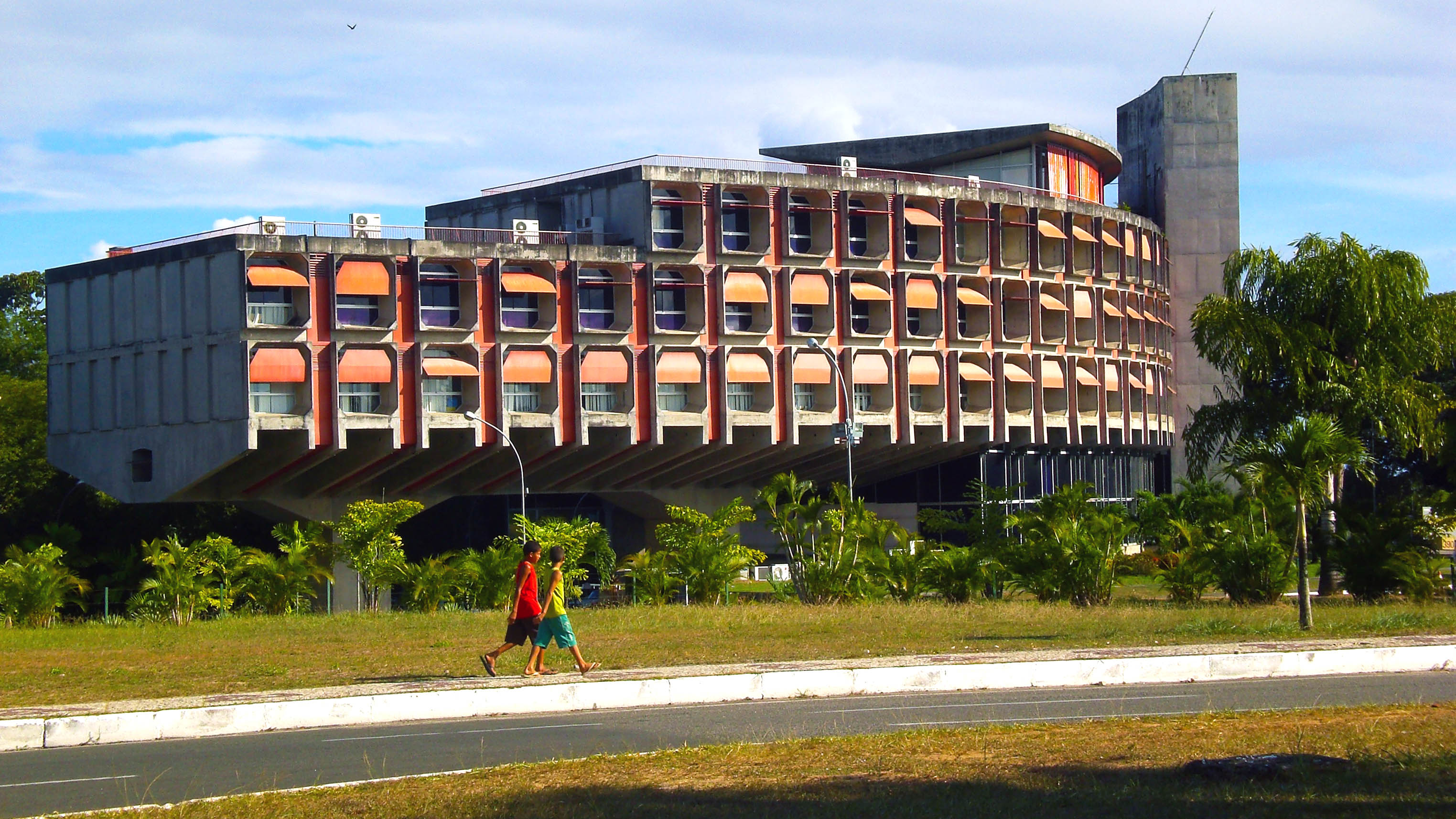 The Bahia Governor's Office building at Salvador, Bahia, Brazil.